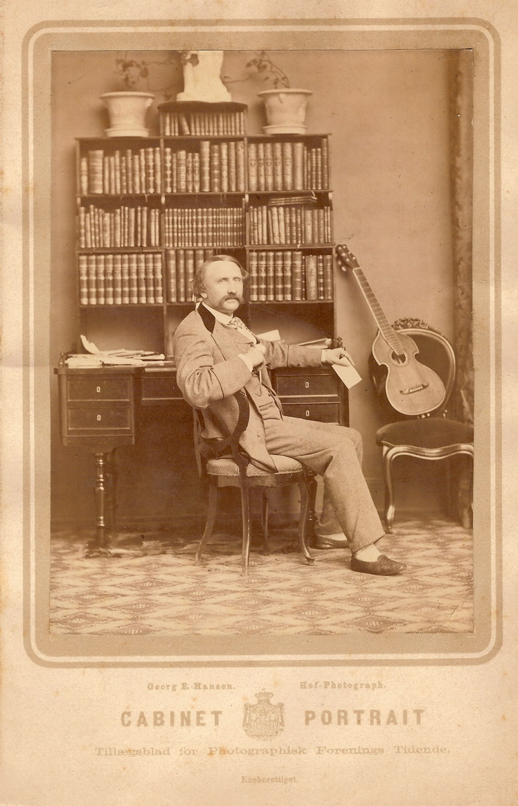 Erik Bøgh (1822-1899), Danish journalist, writer and composer.